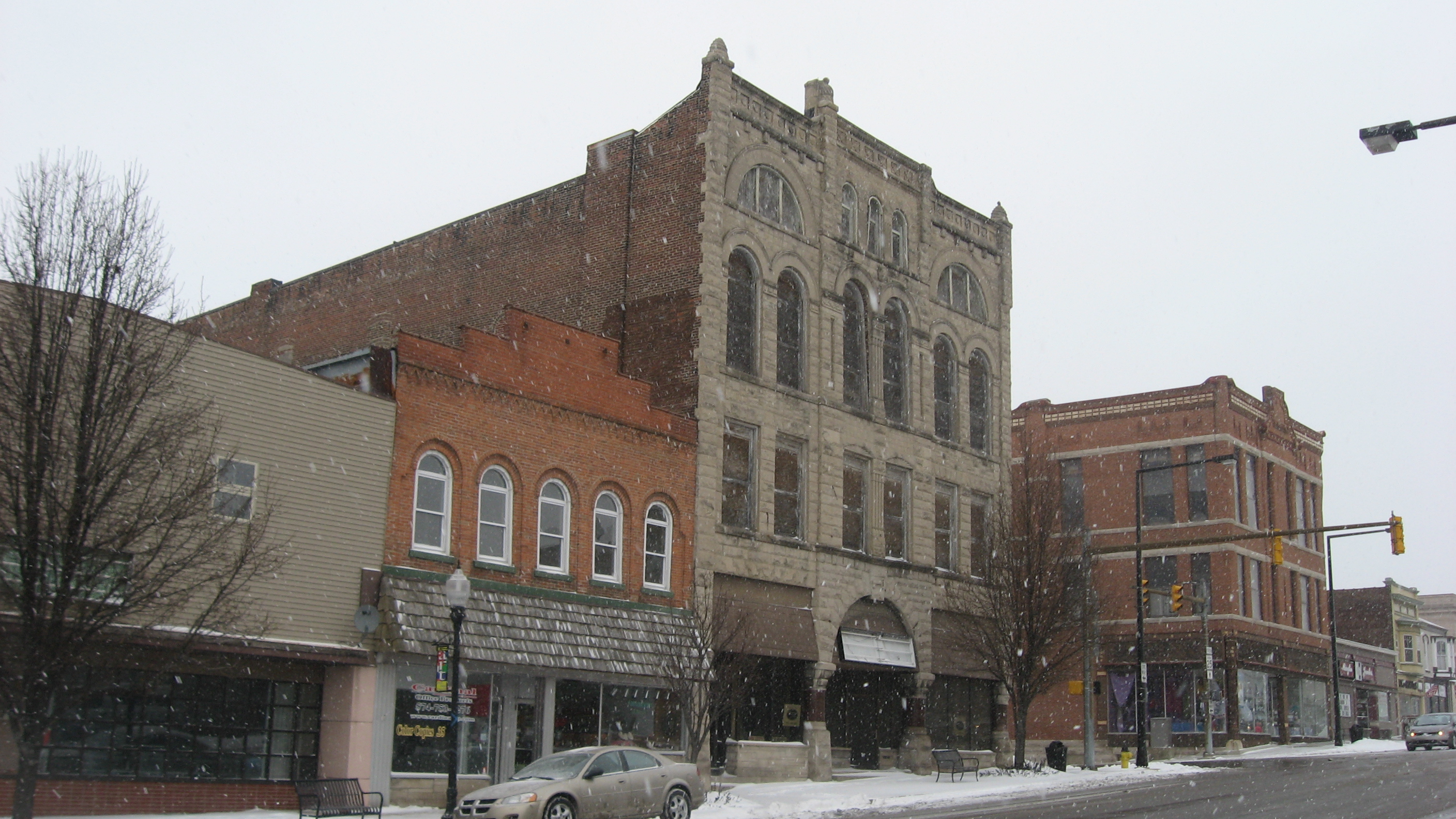 Buildings on the northern side of Broadway between Fifth and Sixth Streets in downtown Logansport, Indiana, United States. From left to right, they are: 520 Broadway: 1960, no style 524 Broadway: 1890, Neo-Renaissance 530 Broadway: 1890, Richardsonian 600 Broadway: 1880, McCaffey Building, Romanesque Except for 520 Broadway, these buildings are part of the Courthouse Historic District, a historic district that is listed on the National Register of Historic Places.